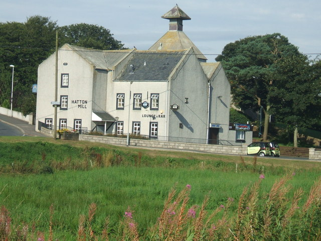 The former Hatton Mill, Hatton, Aberdeenshire, now a pub